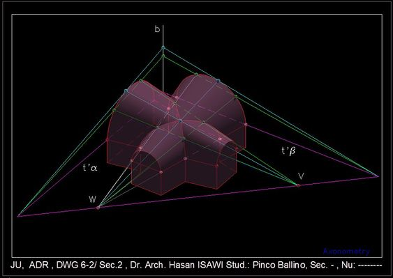 intersection of Two Cones having double contact with one another, that is to say, having a pair of tangent planes in common. The consequenee of their having double contact is that their curve of Intersection breaks up into two plane ellipses. The vertices of the cones slide along a rule which turns on a universal joint. Reference